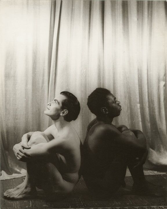 Dancer Hugh Laing with an African American dancer